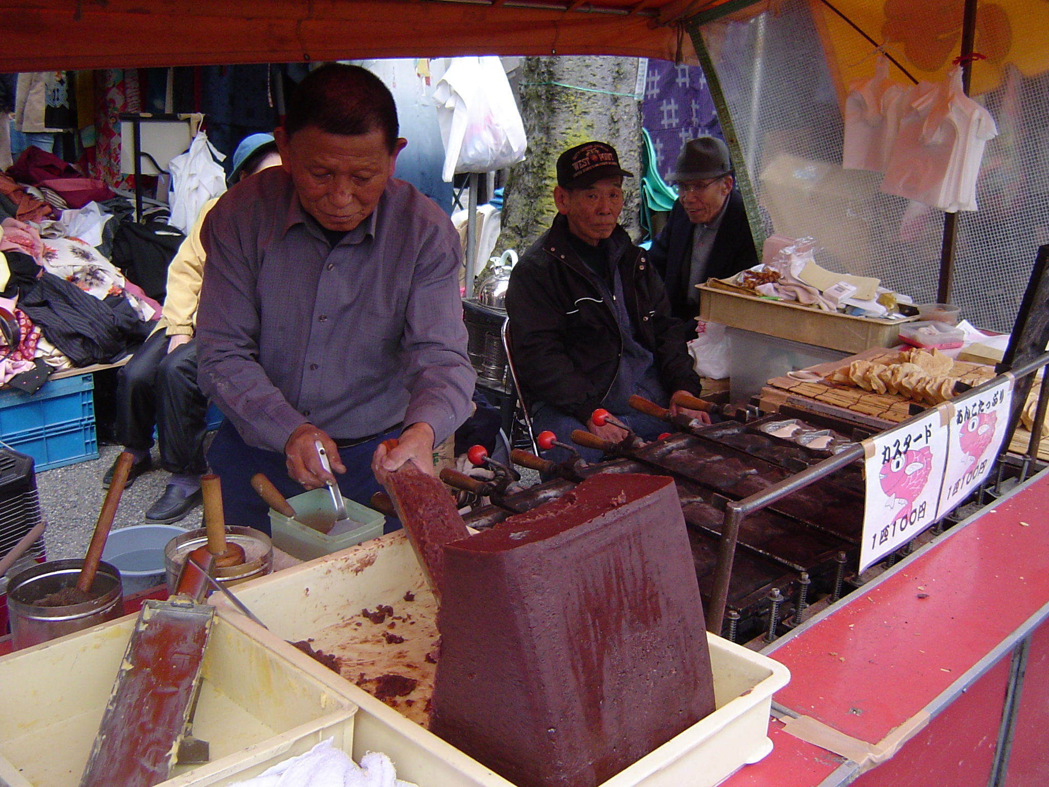 Azuki bean paste being used as a filling for a small pastry in Kyoto, Japan.